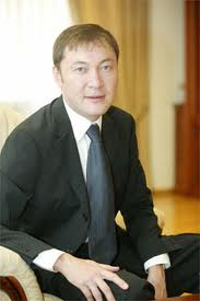 Subkhanbedin.jpg